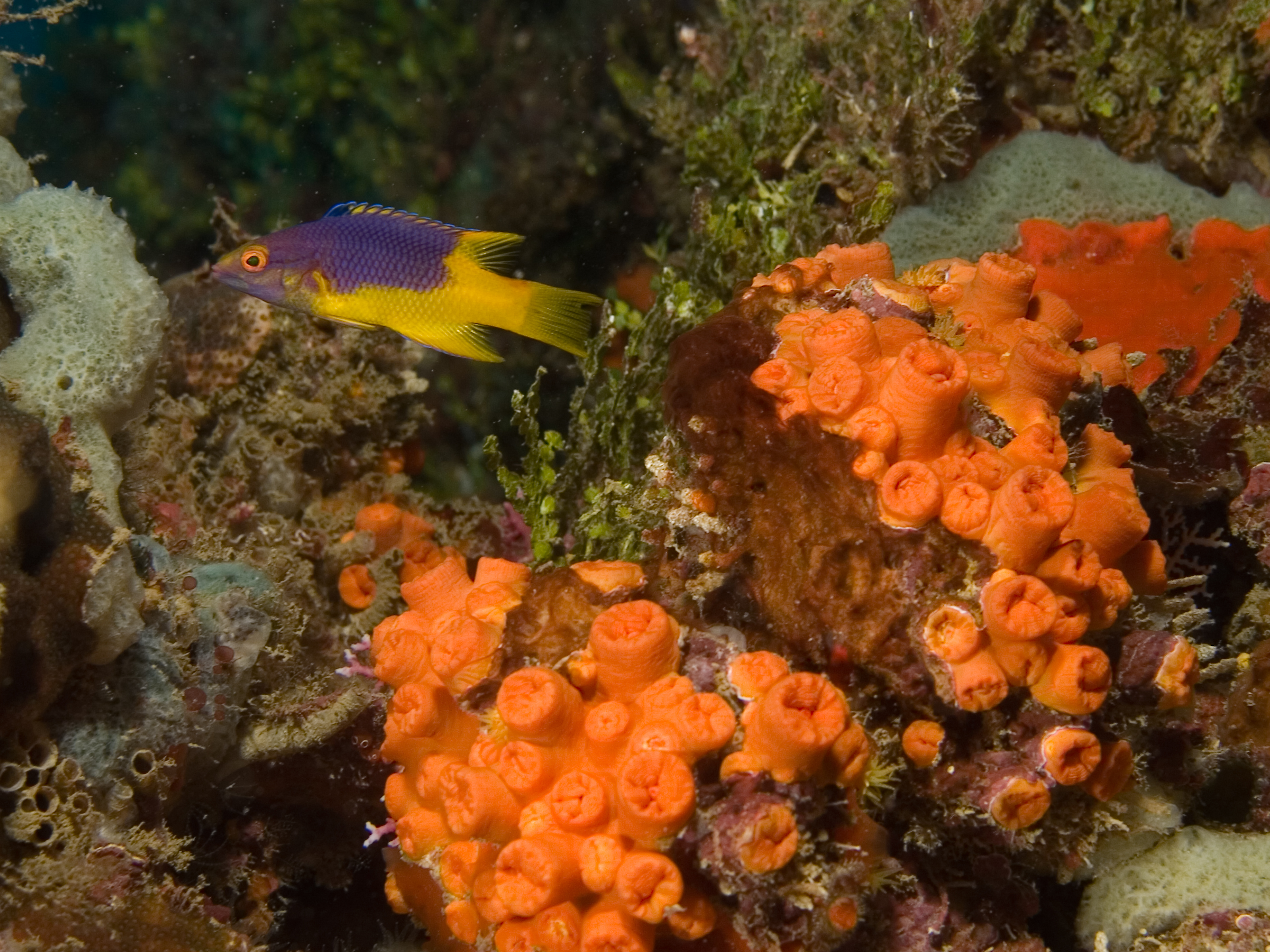 Bodianus rufus (Spanish Hogfish) juvenile